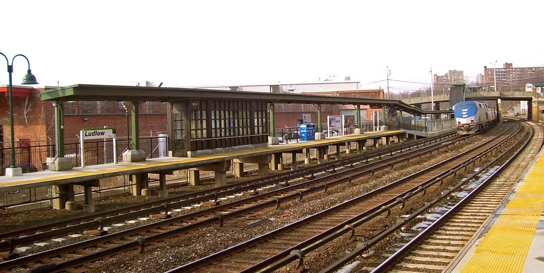 An Amtrak train passes through Ludlow station